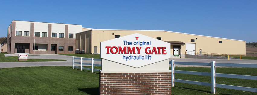 This is an image of the Tommy Gate factory, in Woodbine, Iowa, circa 2014.